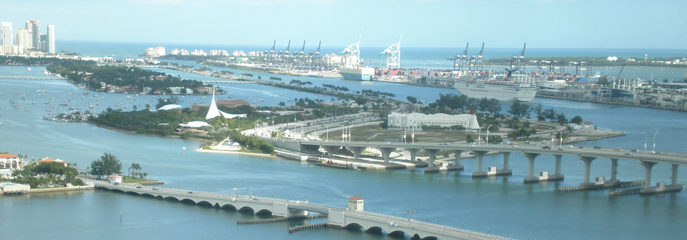 Digital photo taken by Marc Averette. View of Watson Island, Miami, Florida from the en:1800 Club in Downtown Miami 4/7/2008